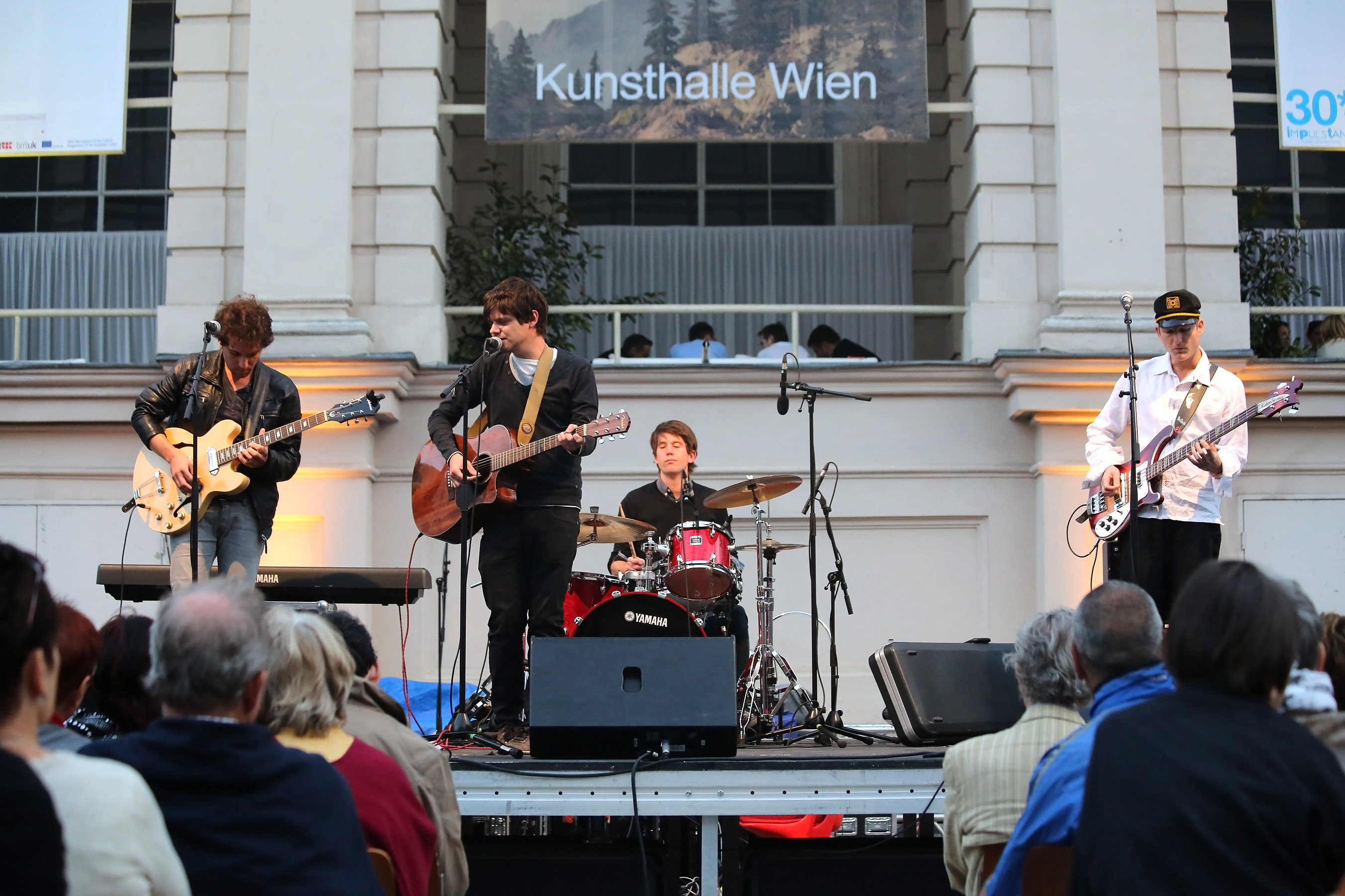 Der Nino aus Wien, opening of o-töne 2013 at Museumsquartier in Vienna.